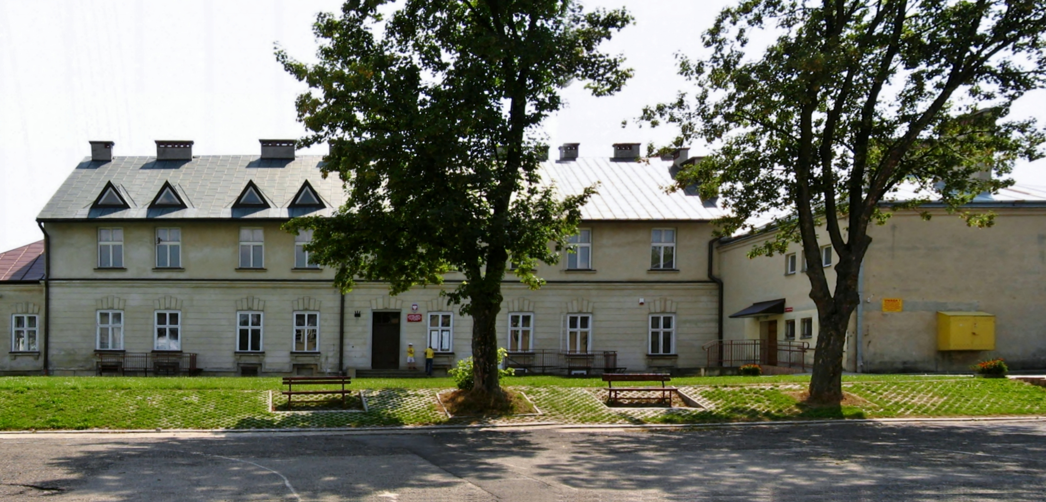 Elder castle in Biecz